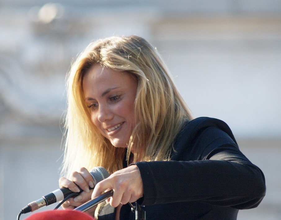 Tina Cousins singing live at the streets of Madrid (Spain) during the 2008 LGBT pride parade.